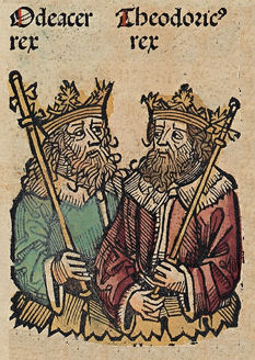 Woodcut from the Nuremberg Chronicle